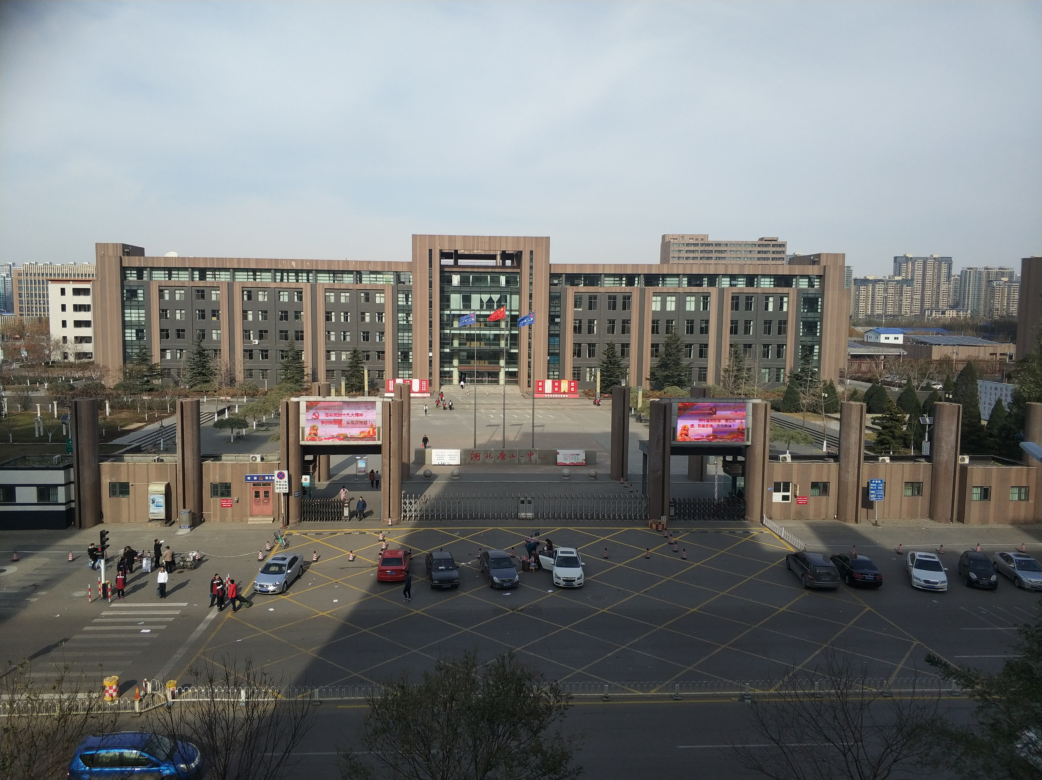 Tangshan No.1 High School gate